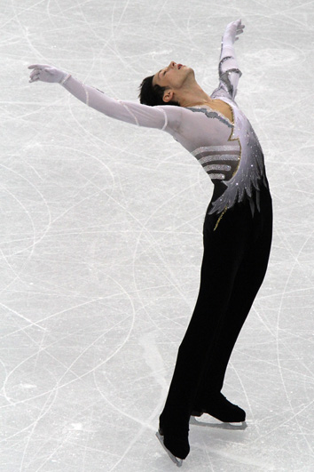 Johnny Weir at the 2010 Winter Olympics.